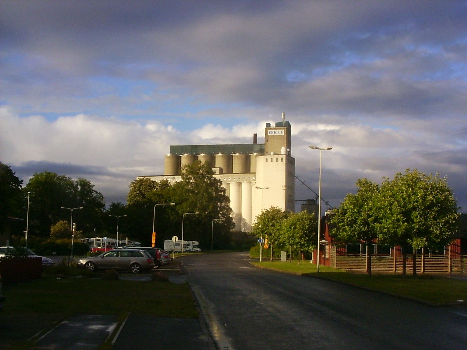 Åhus, silo